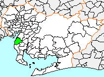 Modified by me from Wikipedia's file